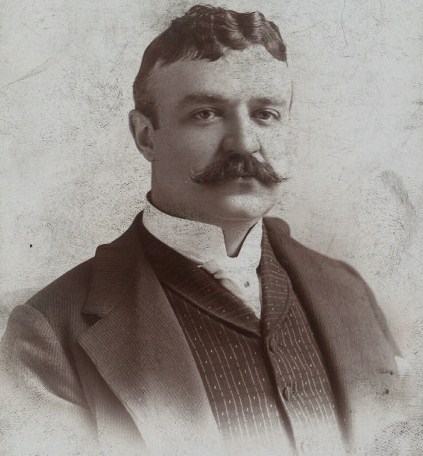 american stage & silent film actor Frank Losee - publicity still (cropped)